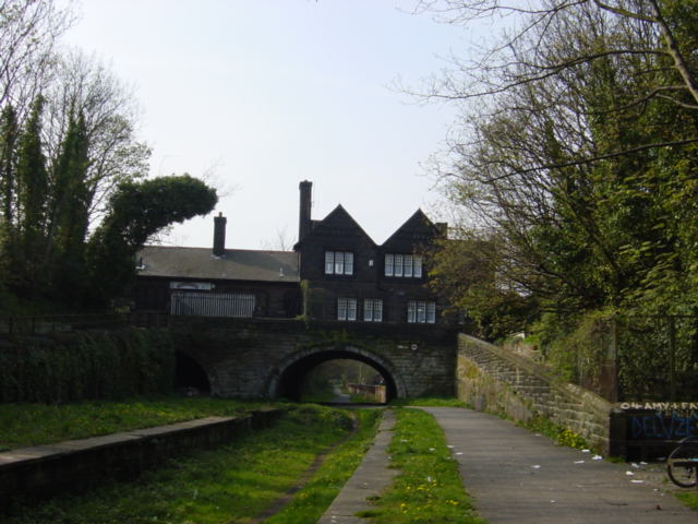 West Derby railway station Original description: Old West Derby station, Mill Lane